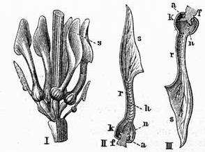 drawing of the bloom of the European Birthwort